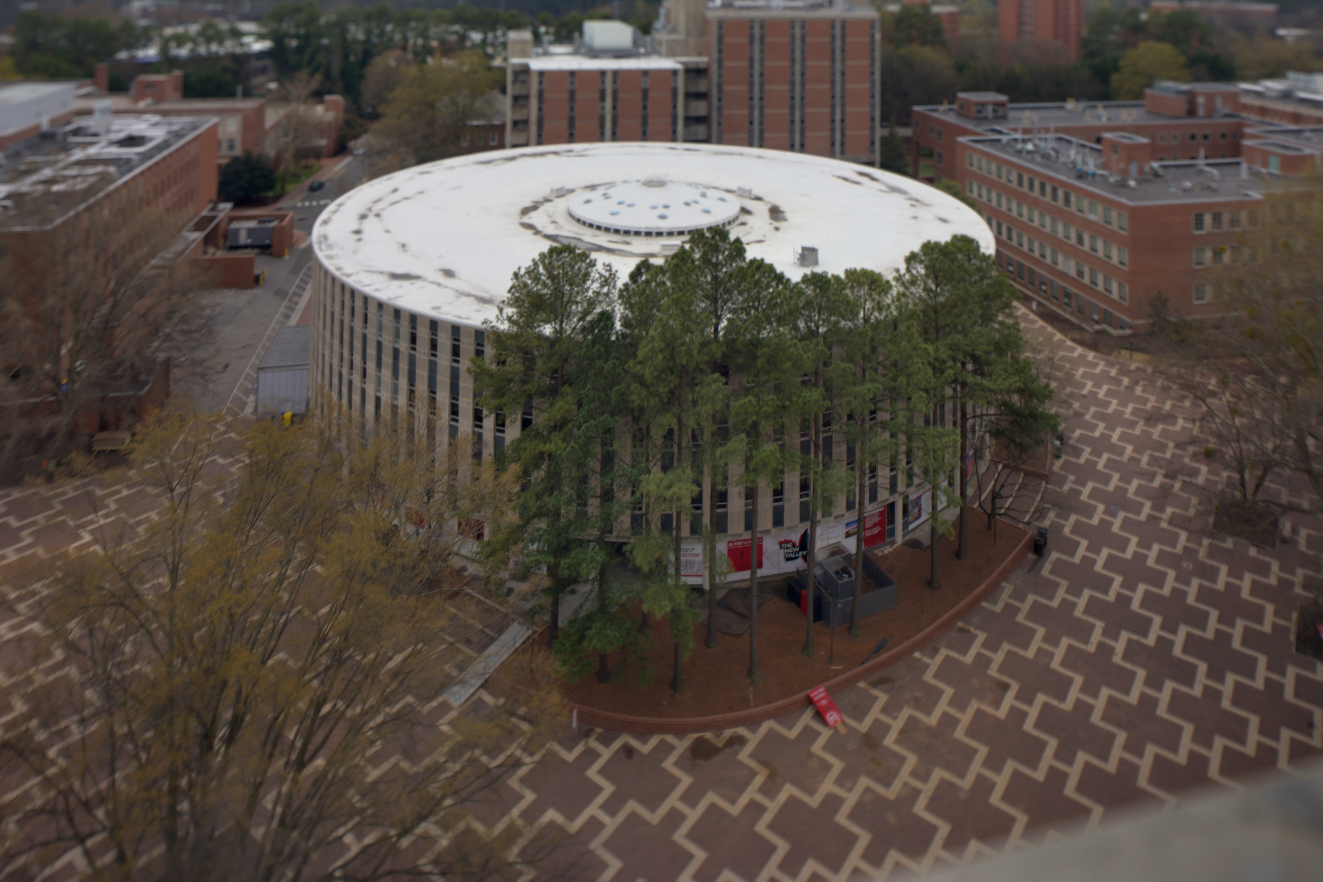 Harrelson Hall, NCSU. April 2013 Canon 6D / TS-E 24mm f/3.5L II